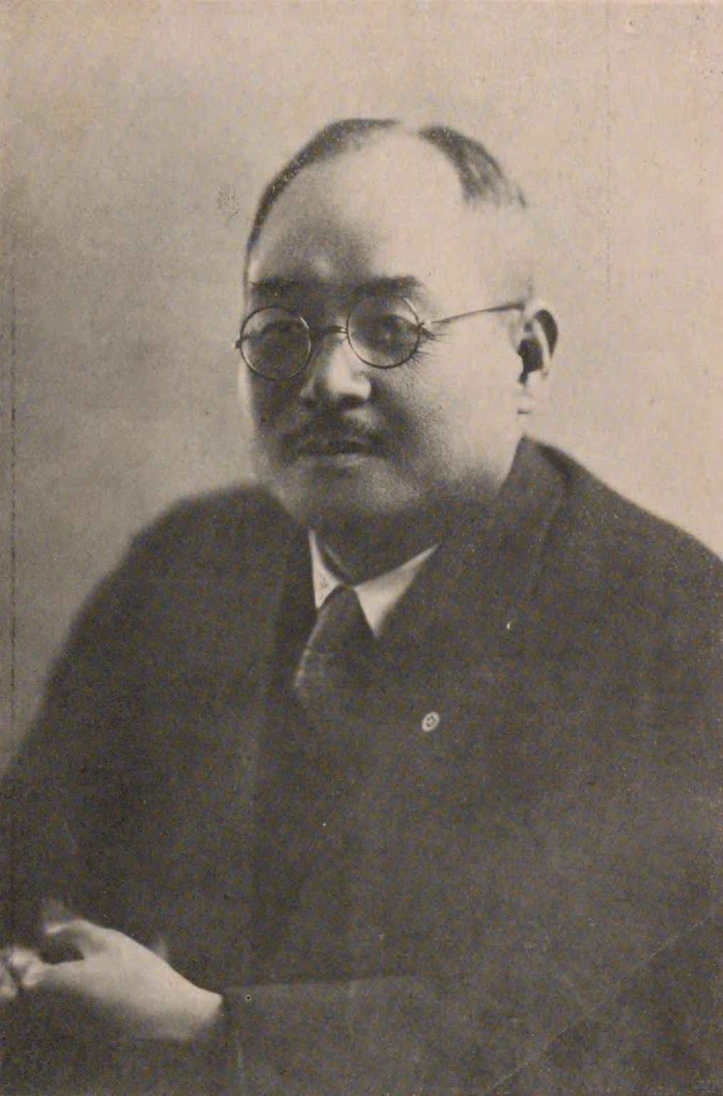 Portrait of Inoue Masaji (井上雅二, 1877 – 1947)